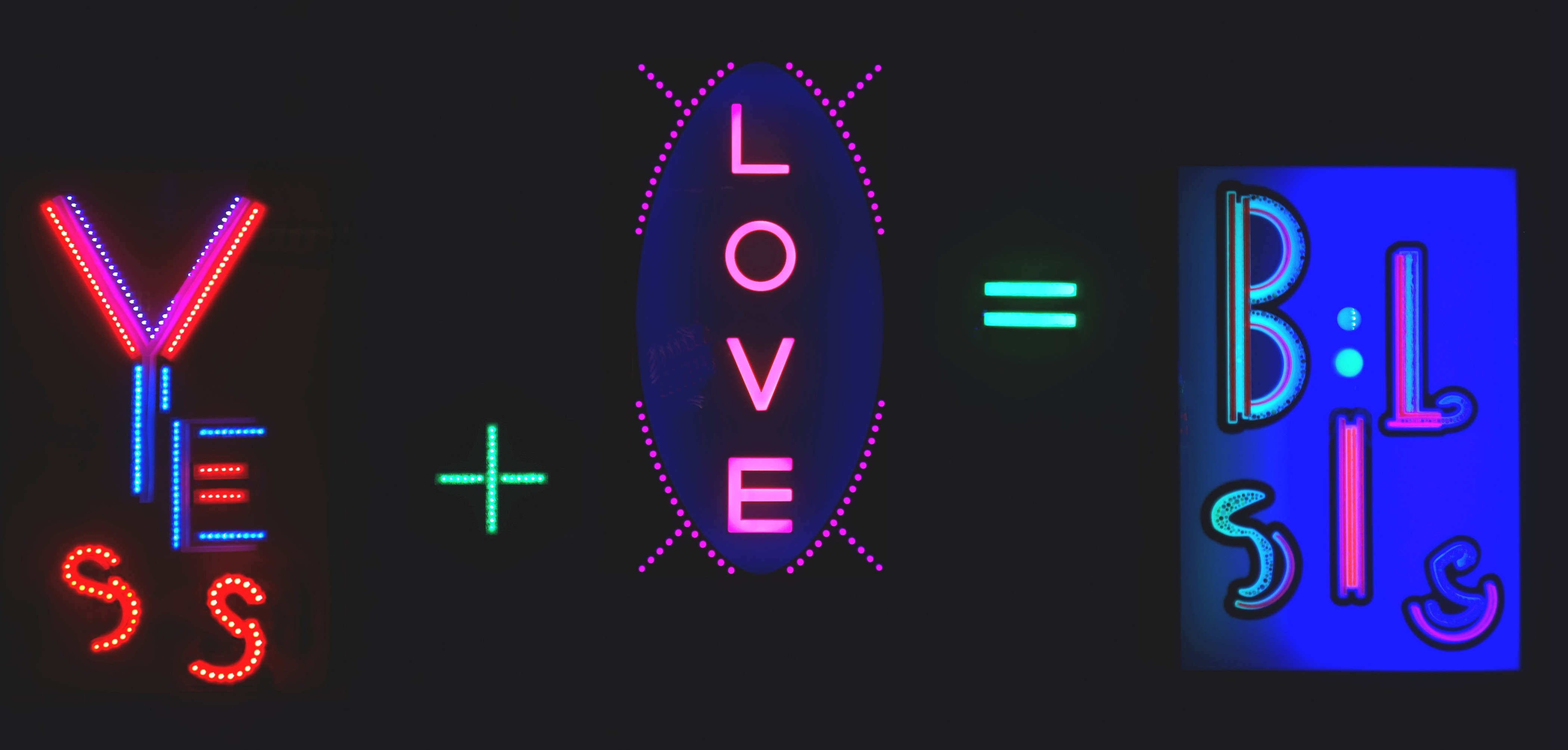 Photographed at the Lumonics Mind Spa in the McNichols Civic Center Building, Denver, CO